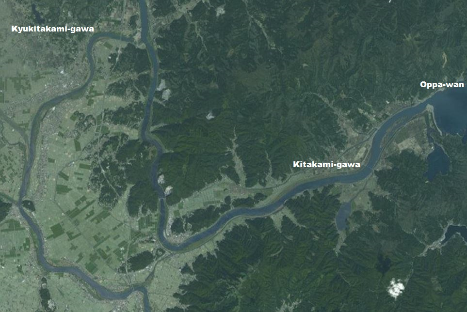 Aerial view of the Kitakami river's delta, at Ishinomaki (Miyagi prefecture).